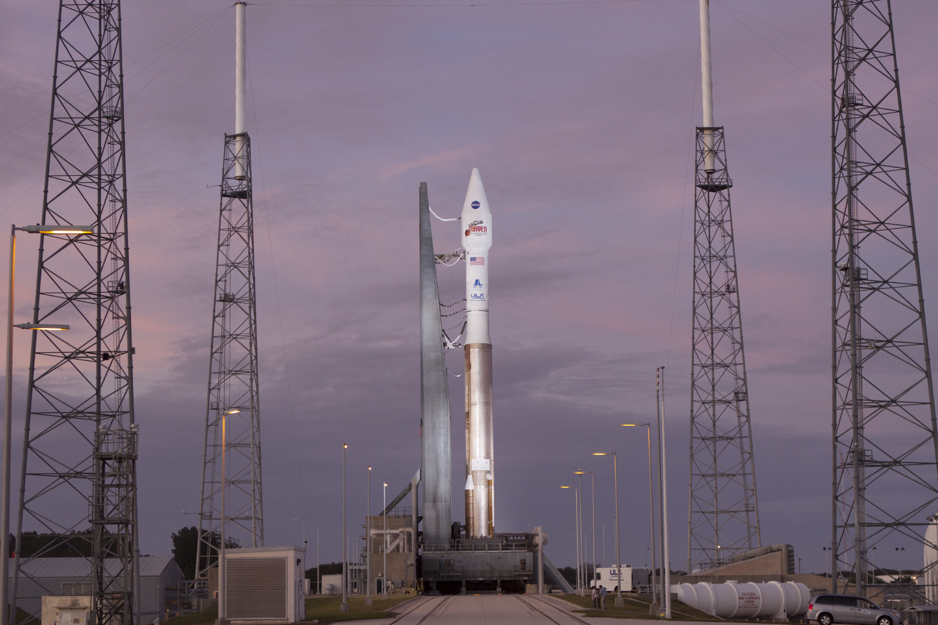 At Cape Canaveral Air Force Station's Space Launch Complex 41 a United Launch Alliance Atlas V rocket stands ready to boost the Mars Atmosphere and Volatile Evolution, or MAVEN, spacecraft on a 10-month journey to the Red Planet. MAVEN is being prepared for its scheduled launch today from Cape Canaveral Air Force Station, Fla. atop a United Launch Alliance Atlas V rocket. Positioned in an orbit above the Red Planet, MAVEN will study the upper atmosphere of Mars in unprecedented detail.